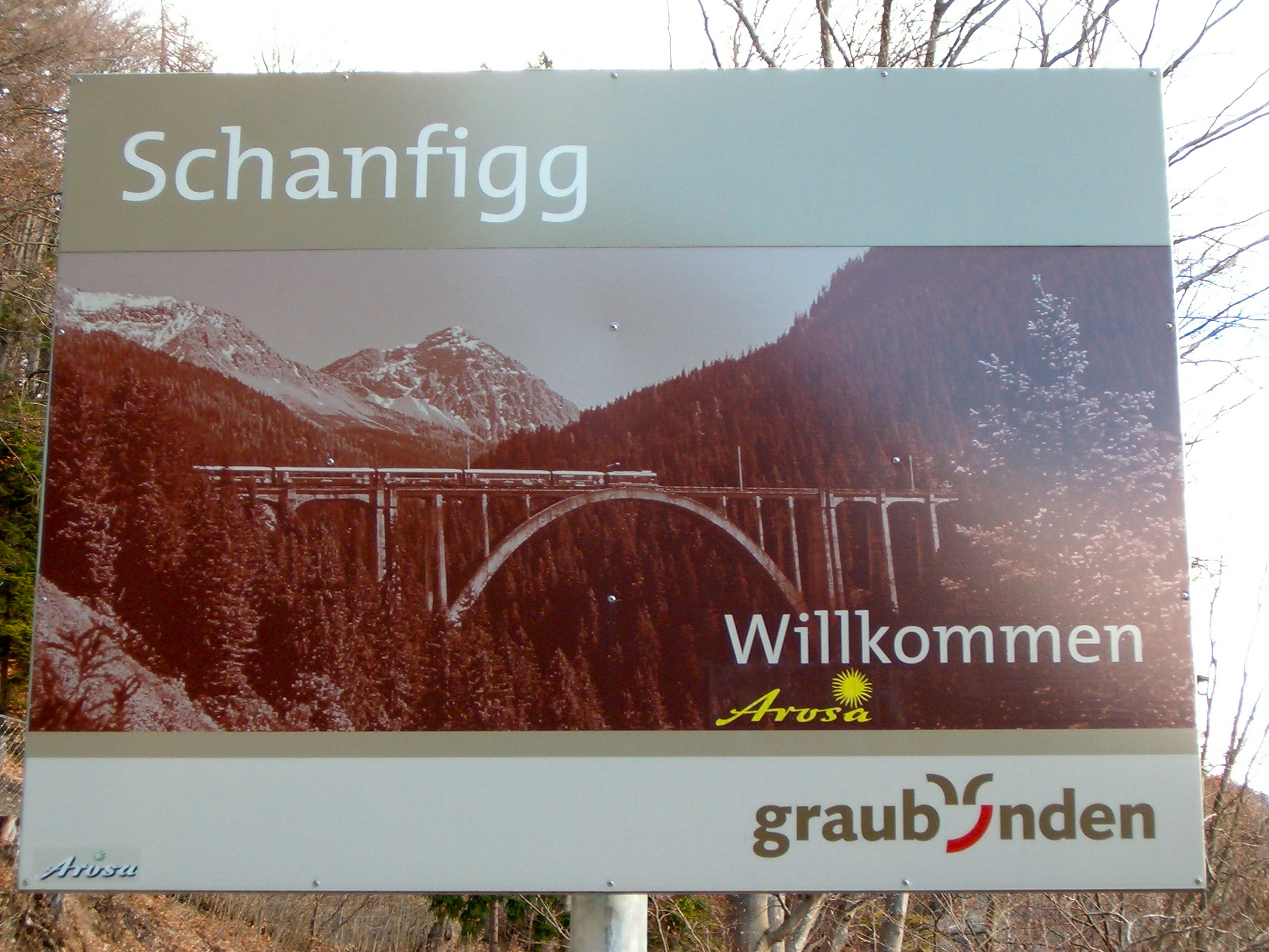 touristic billboard "Schanfigg" near Chur/Arosa, Switzerland